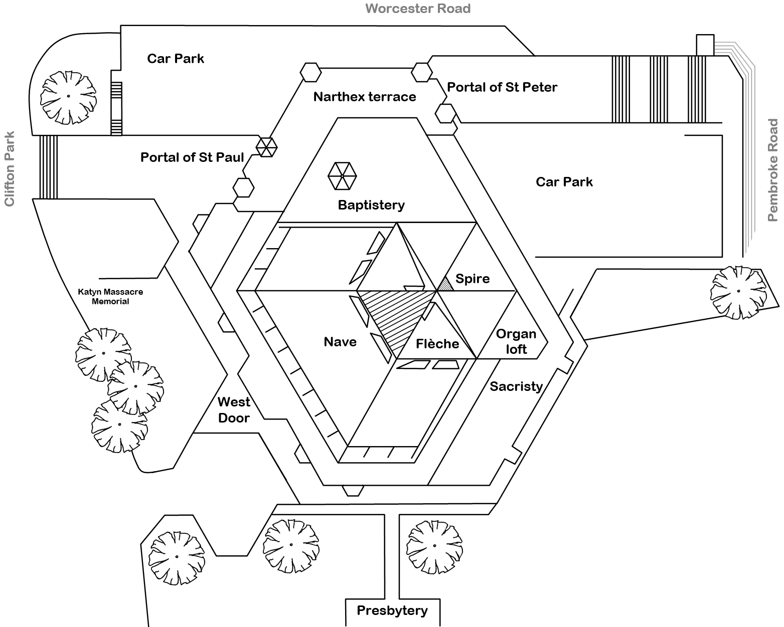 Clifton Cathedral, Clifton Park, Bristol BS8 3BX, United Kingdom